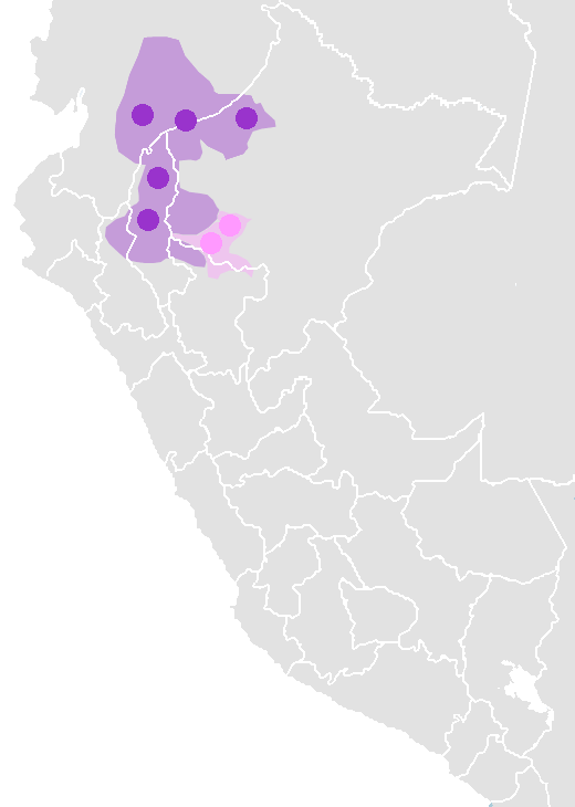 Jivaroan (violet) and Cawapanan (pink) documented languages areas and approximate early probable areas. Based on data of Mary Ruth Wise "Small languages families and isolates in Peru" in The Amazonian Languages, Dixon & Alexandra Y. Aikhenvald (eds.), Cambridge: Cambridge University Press, 1999. p. 307-340.